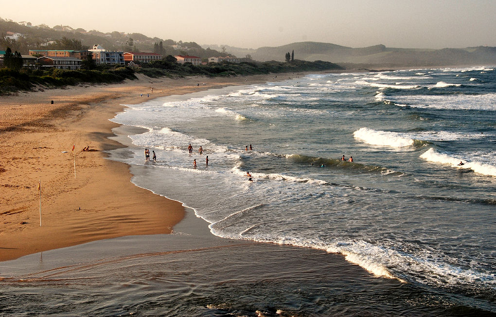 Scottburgh (pronounced scott-burra) is a resort town situated on the mouth of the Mpambanyoni River (confuser of birds), 58 km south of Durban on KwaZulu-Natal South Coast in South Africa